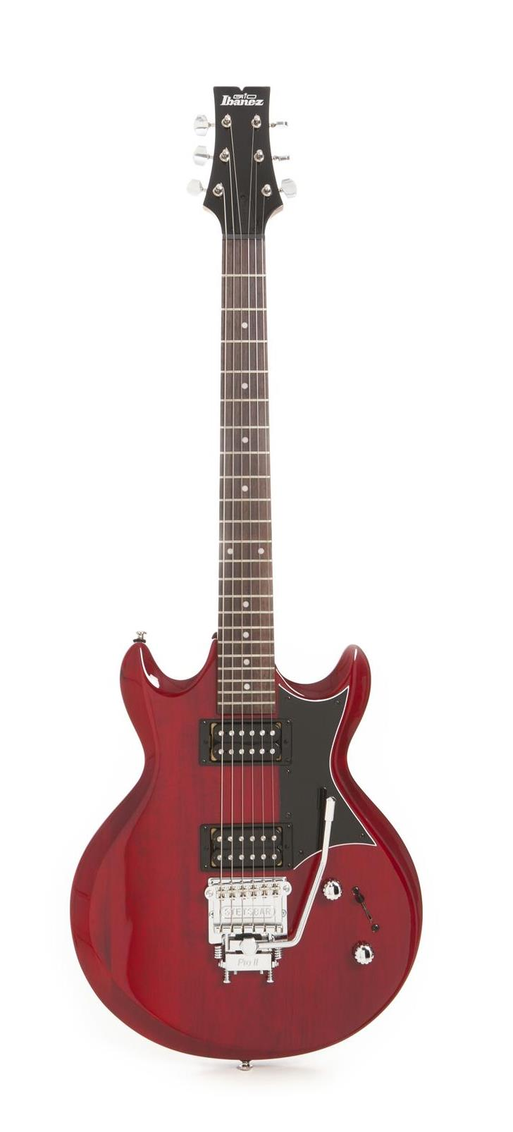 Stetsbar tremolo/vibrato system mounted on Hard-Tail guitar